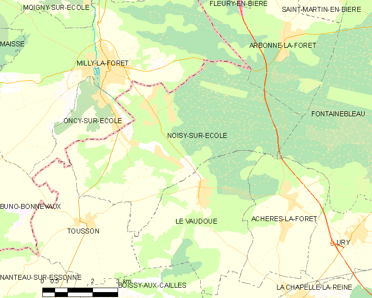 Map of French municipality Noisy-sur-École